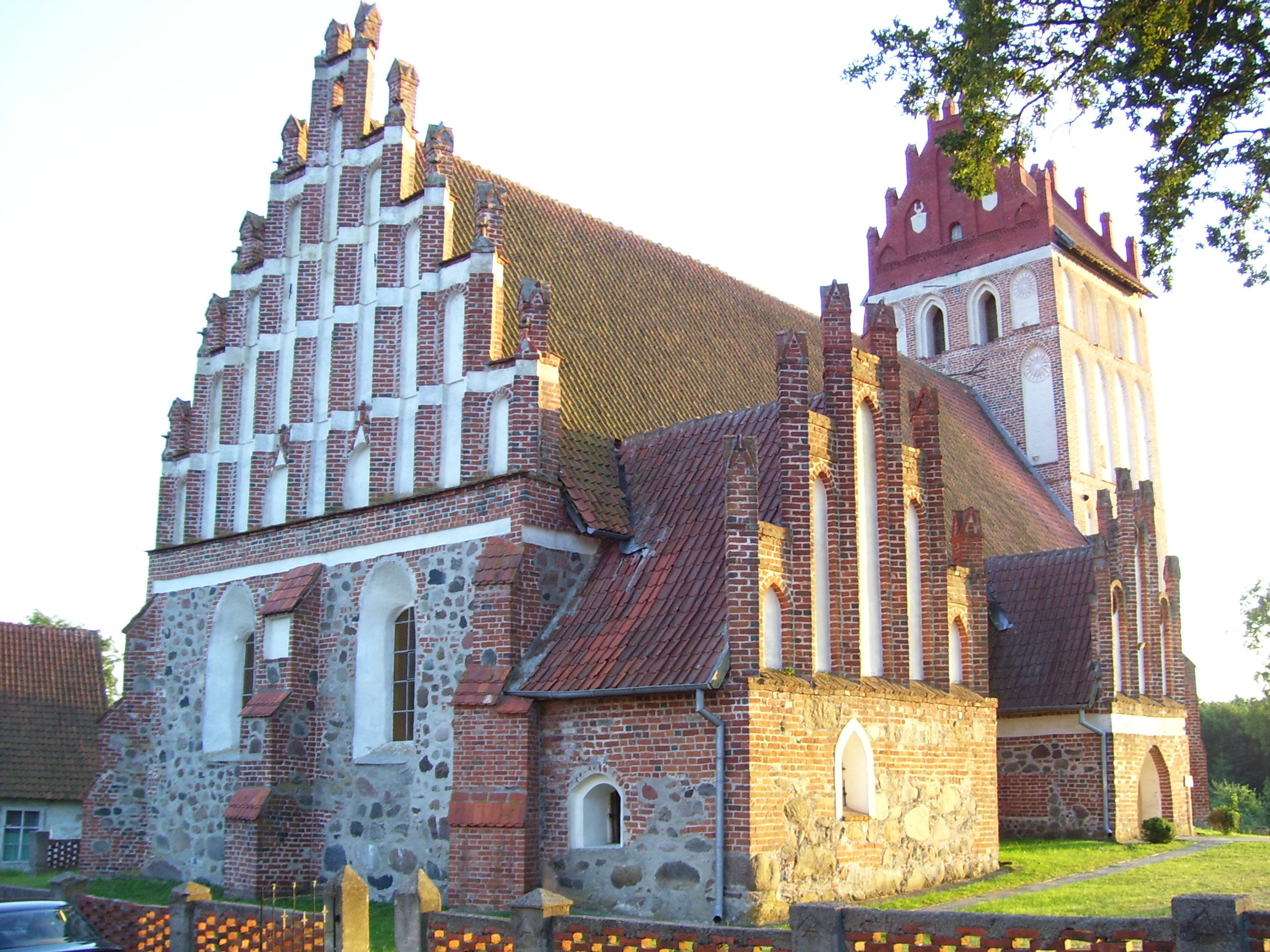 The church in Mołtajny, view from NE